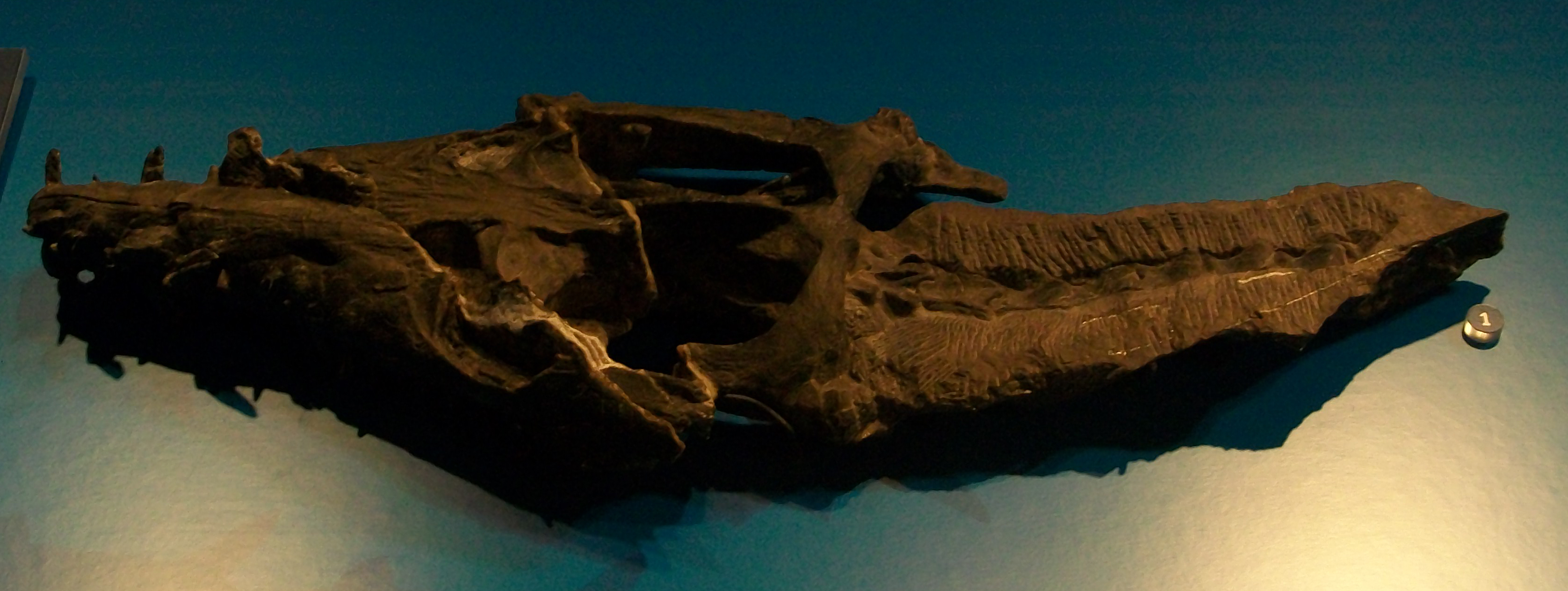 Skull of Augustasaurus hagdorni in the Field Museum of Natural History.